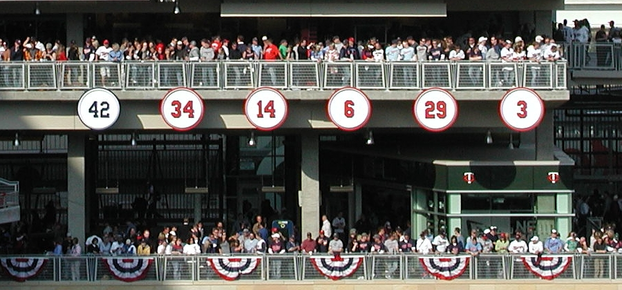 Cropped version of Target_Field_04.14.2010_059.jpg to focus on the retired number signs.